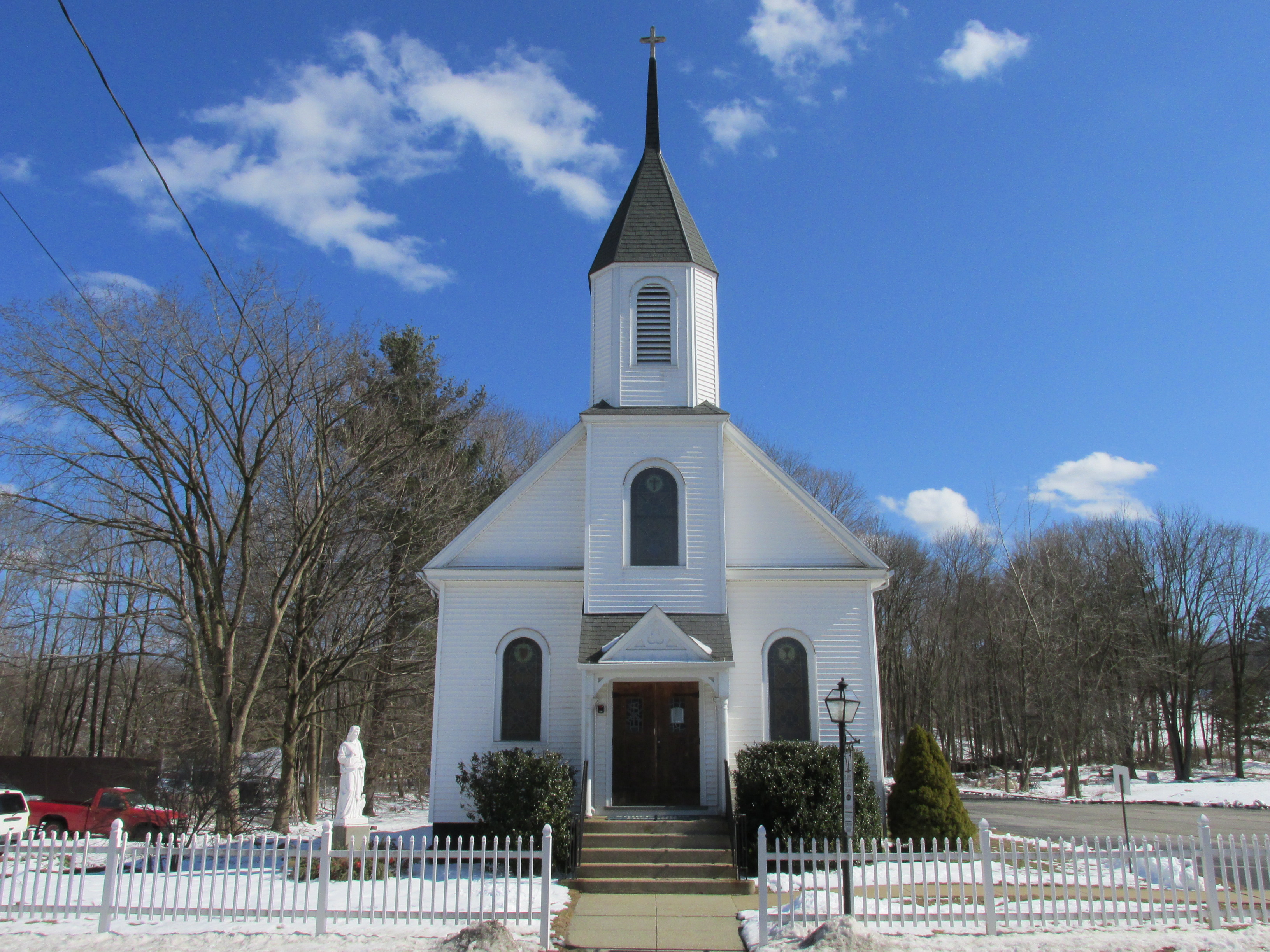 St John Church, Bozrah Connecticut